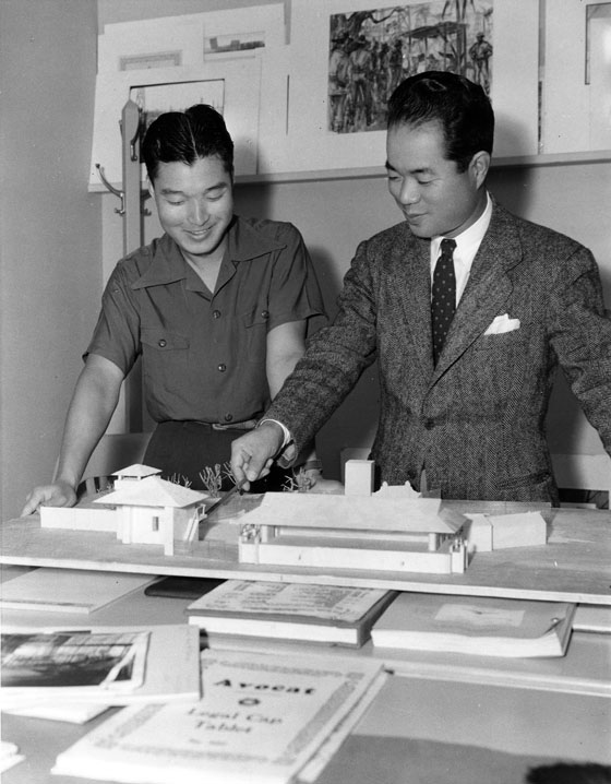 Eddie Imazu and Takashi "Teek" Konda discuss set designs.